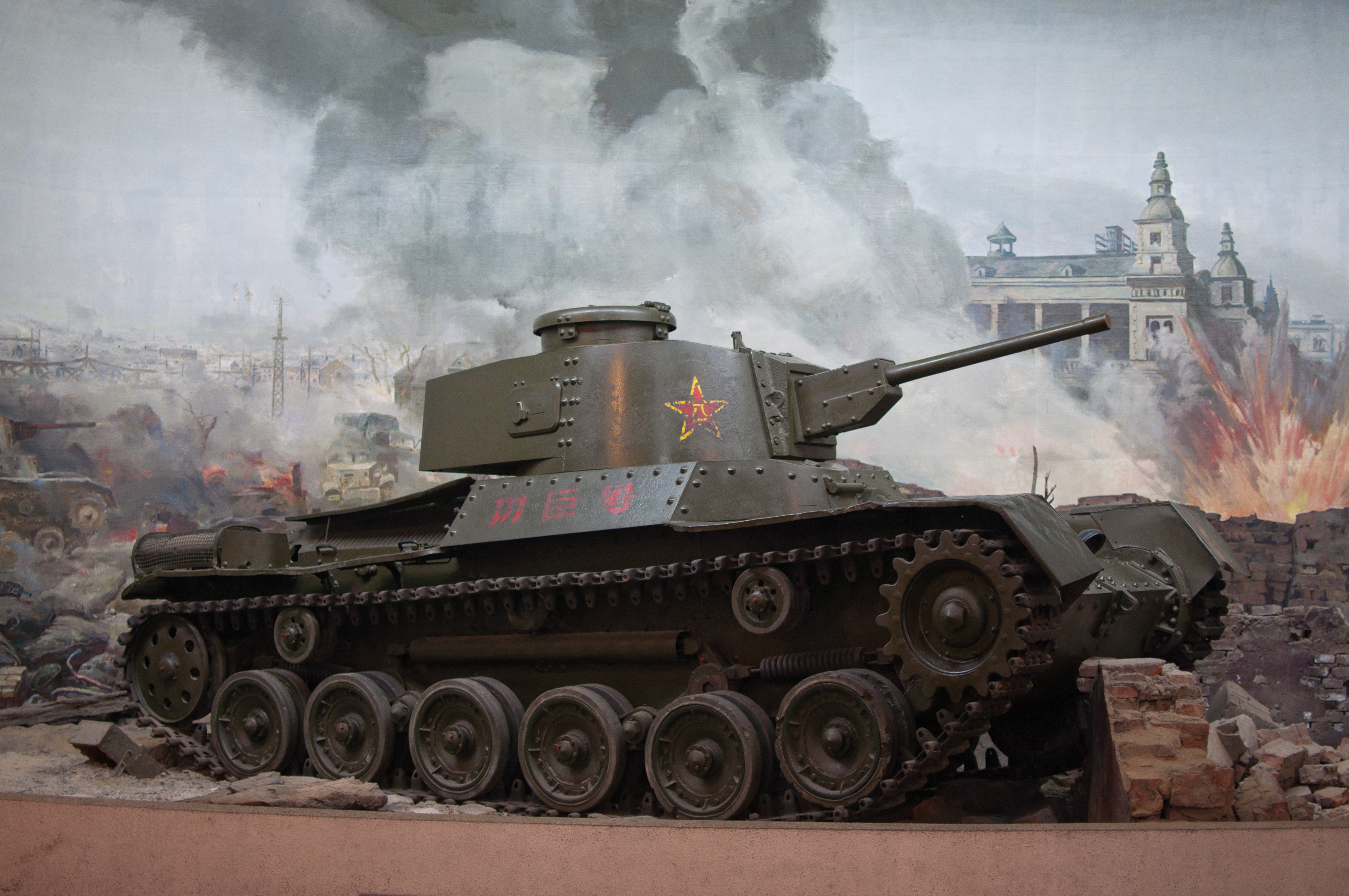 Type 97 Chi-Ha in the Military Museum of the Chinese People's Revolution.